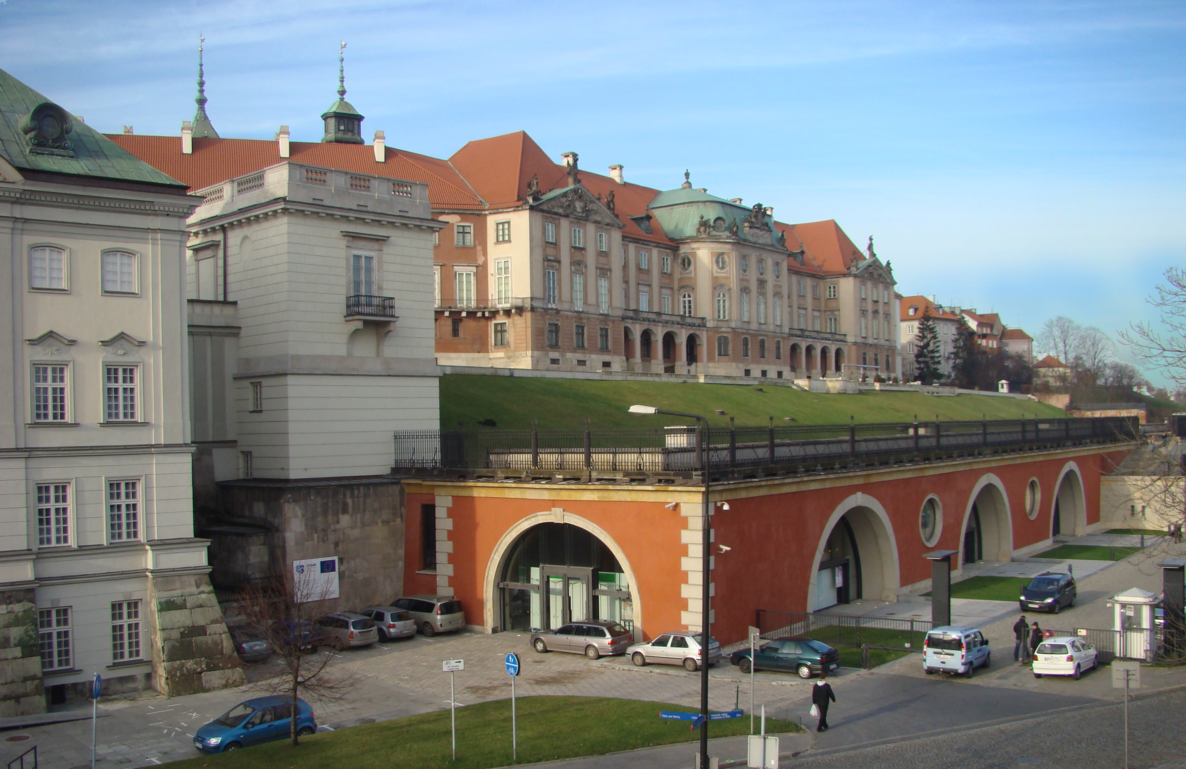 Eastern facade of the Royal Castle and Kubicki Arcades, Warsaw